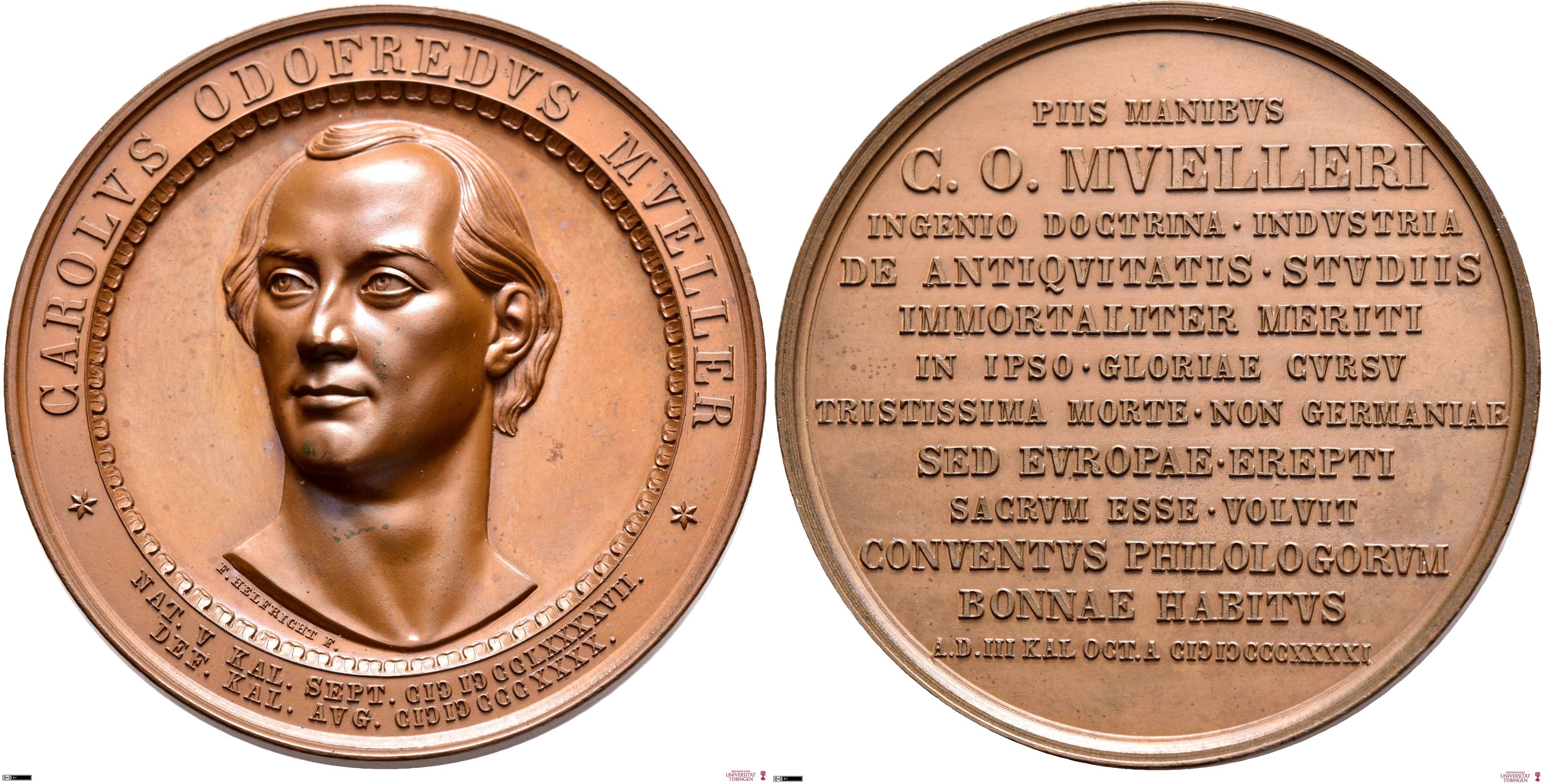 The front side depicts a bust of Müller in three-quarter view surrounded by his name and date of death and birth in Latin. The engraver Ferdiand Helfricht signed below the bust. The back side consists only of a Latin dedication to the late Müller. In the bottom of said text the occasion for strucking this medal is named as the convention of German philologists when it was held 1841 in Bonn.